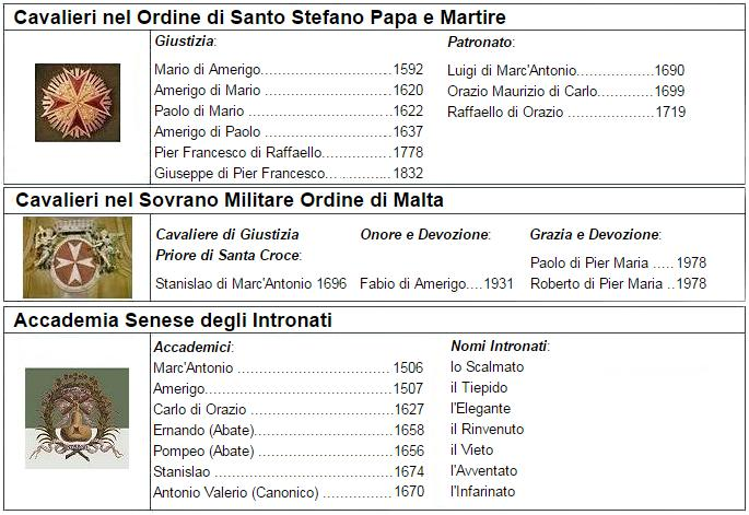 Table 'knightly and cultural institutions' (Amerighi)